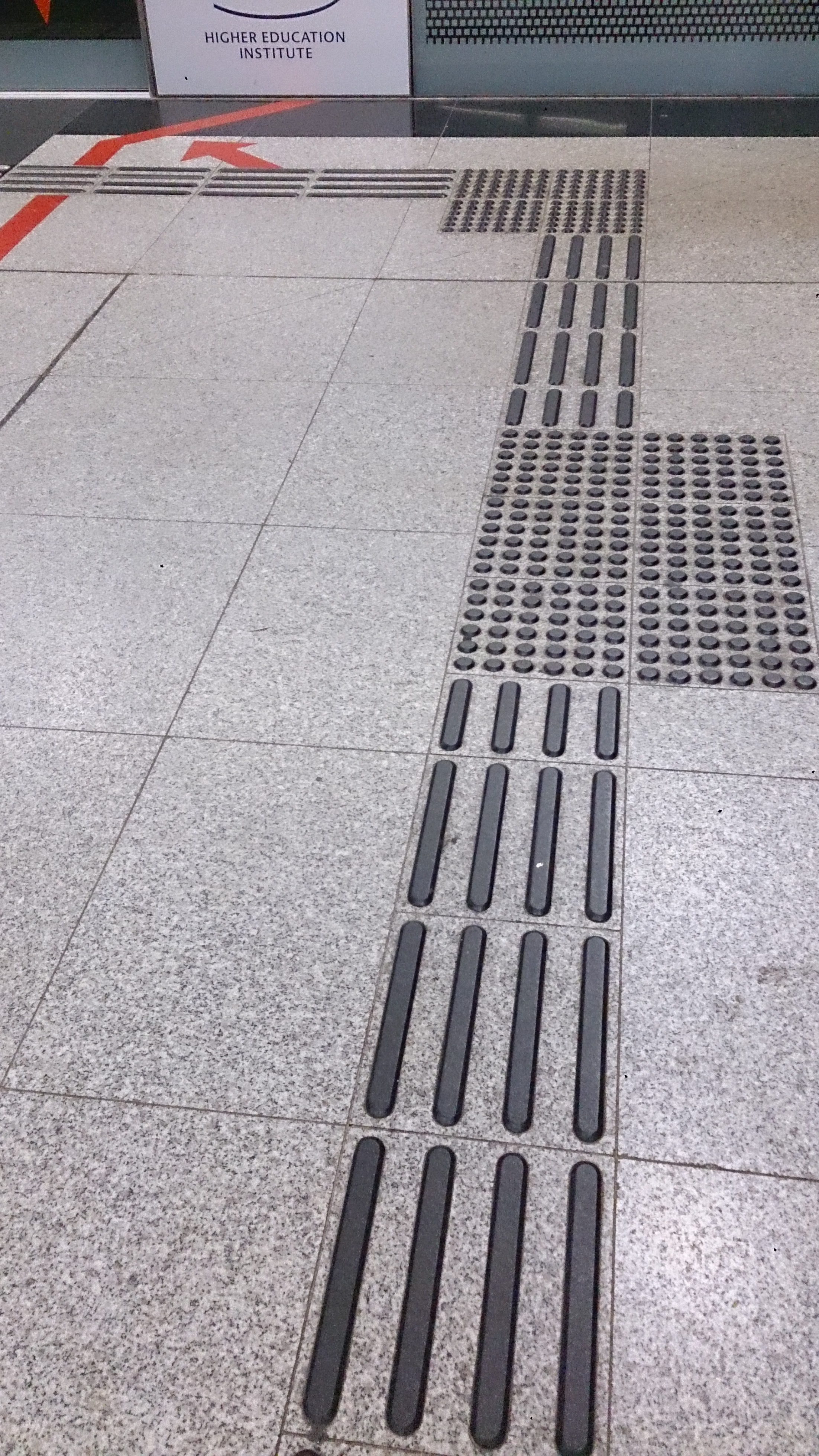 Tactile paving in a Mass Rapid Transit (MRT) station in Singapore.